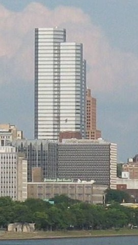 Oxford Centre.